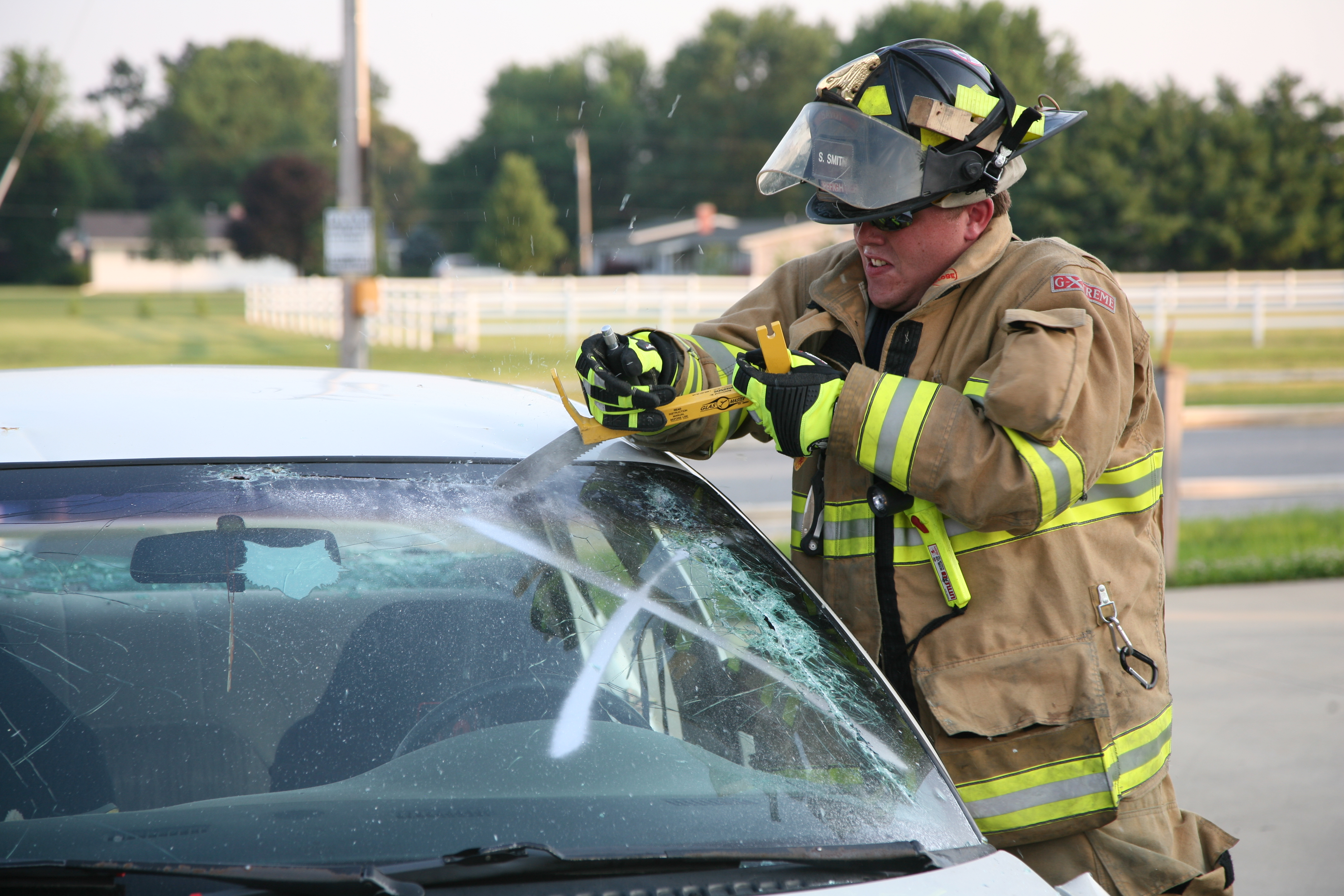 Fireman using a glass saw on a windshield during an extrication excercise in Oaskwood, Illinois